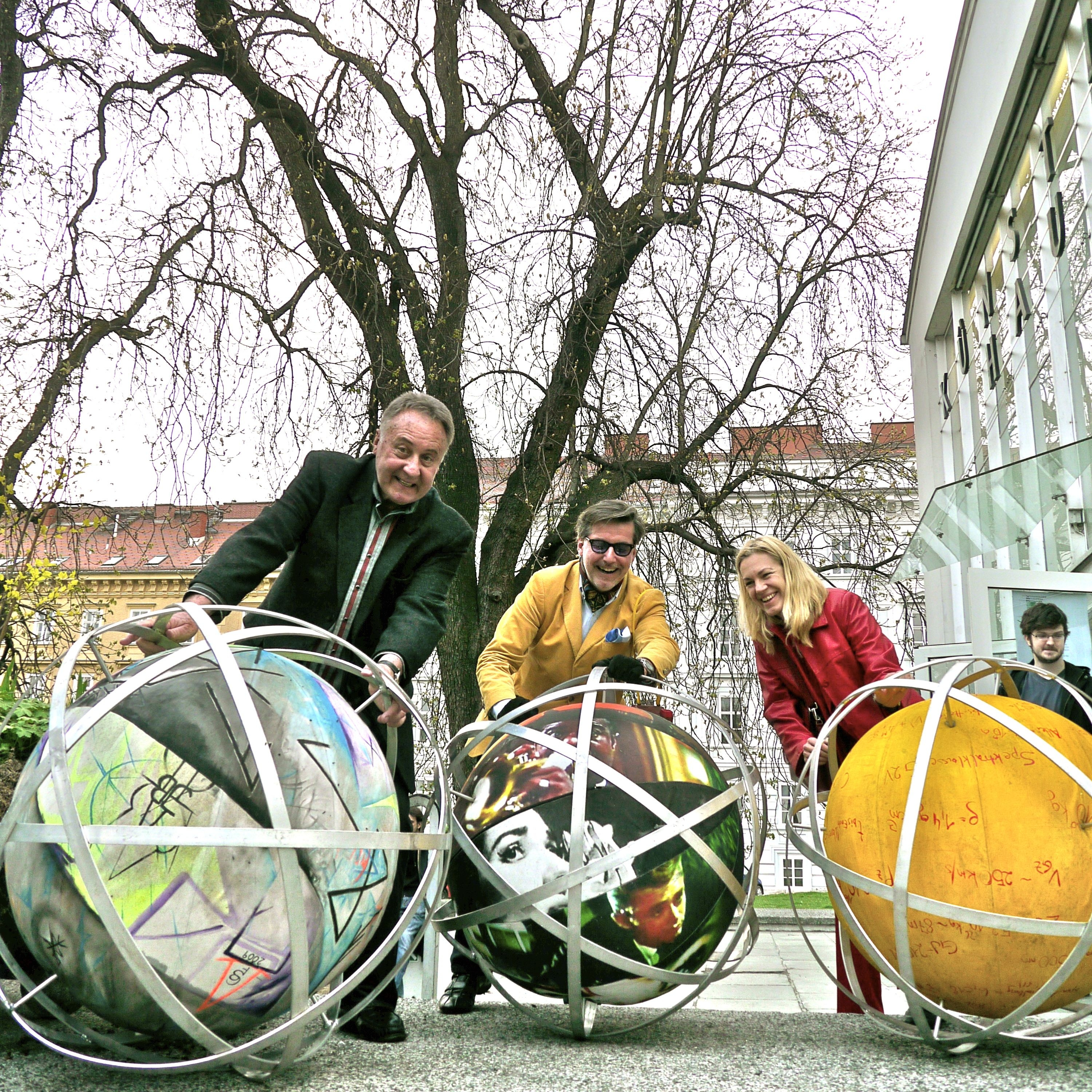 Günther Frank, Christian Reichhold and Martina Schettina with their Rolling Stars in front of Künstlerhaus Graz, April 2010